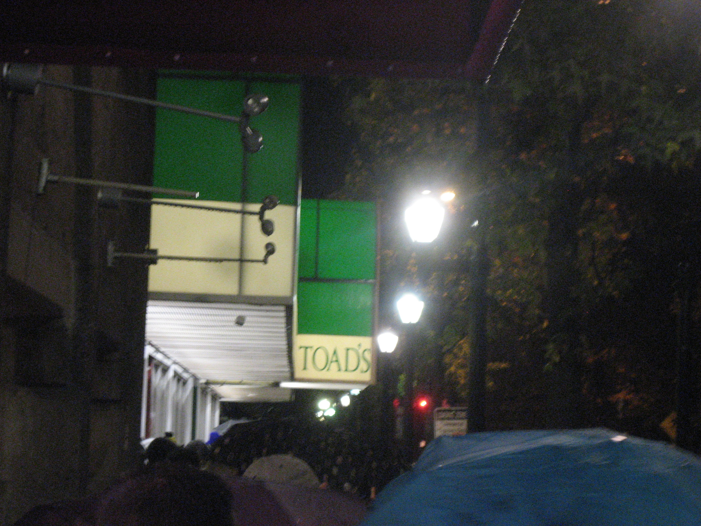 Exterior of Toad's Place in New Haven, Connecticut